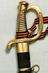 Honorable Georgian sabre